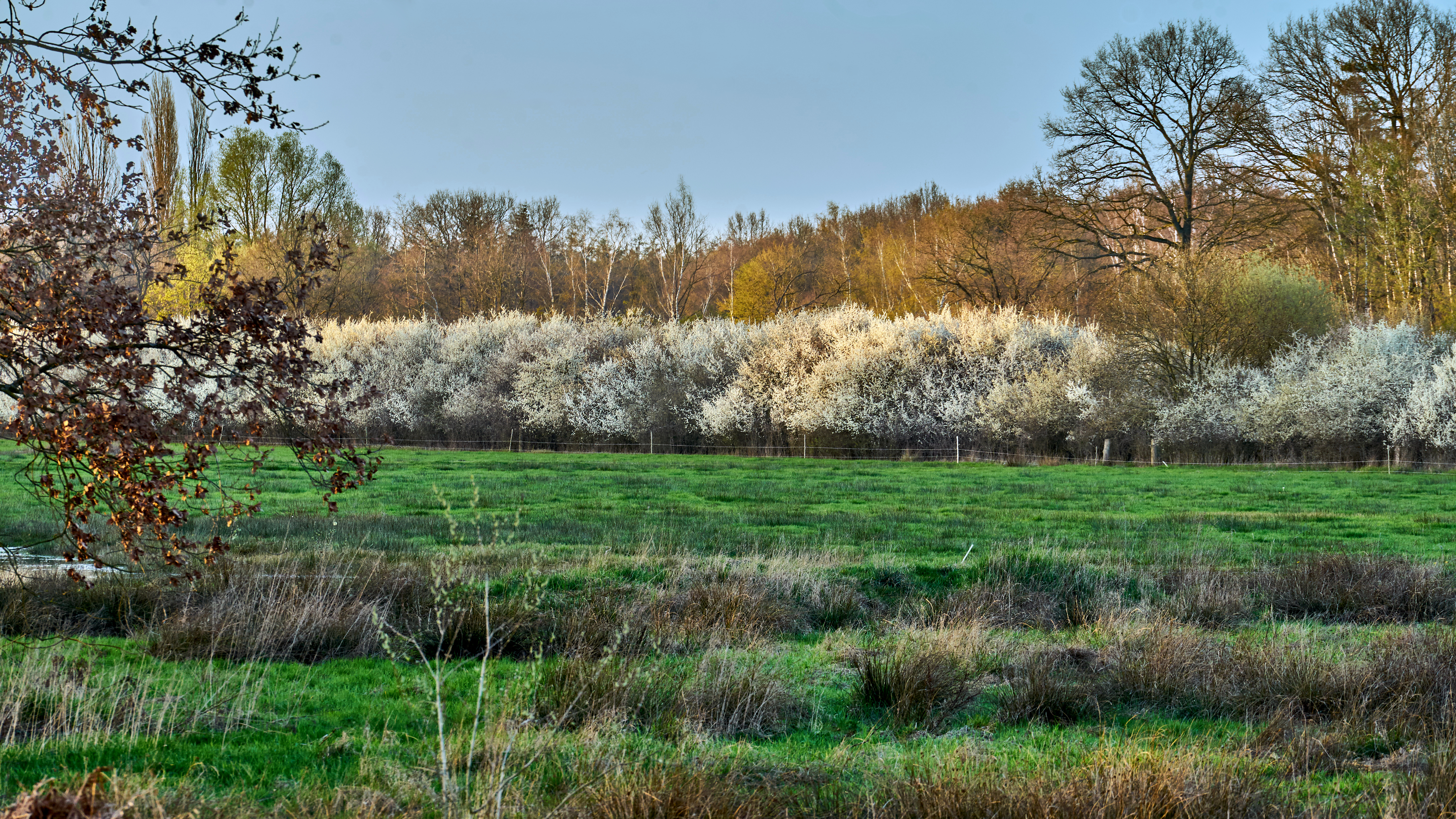 Prunus spinosa in the nature reserve Burlo-Vardingholter Venn und Entenschlatt near Burlo, Borken, North Rhine-Westphalia, Germany.